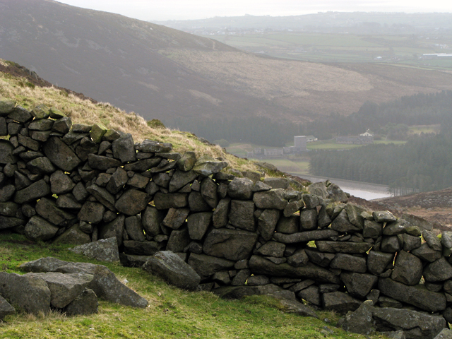 Mourne Wall, Slievenaglogh. The Mourne Wall on Slievenaglogh is a dry stone wall construction and not to the same standard as the famous sections seen in areas such as 437611. In the background part of the Silent Valley reservoir is just visible, with the Irish Sea visible in the far distance.